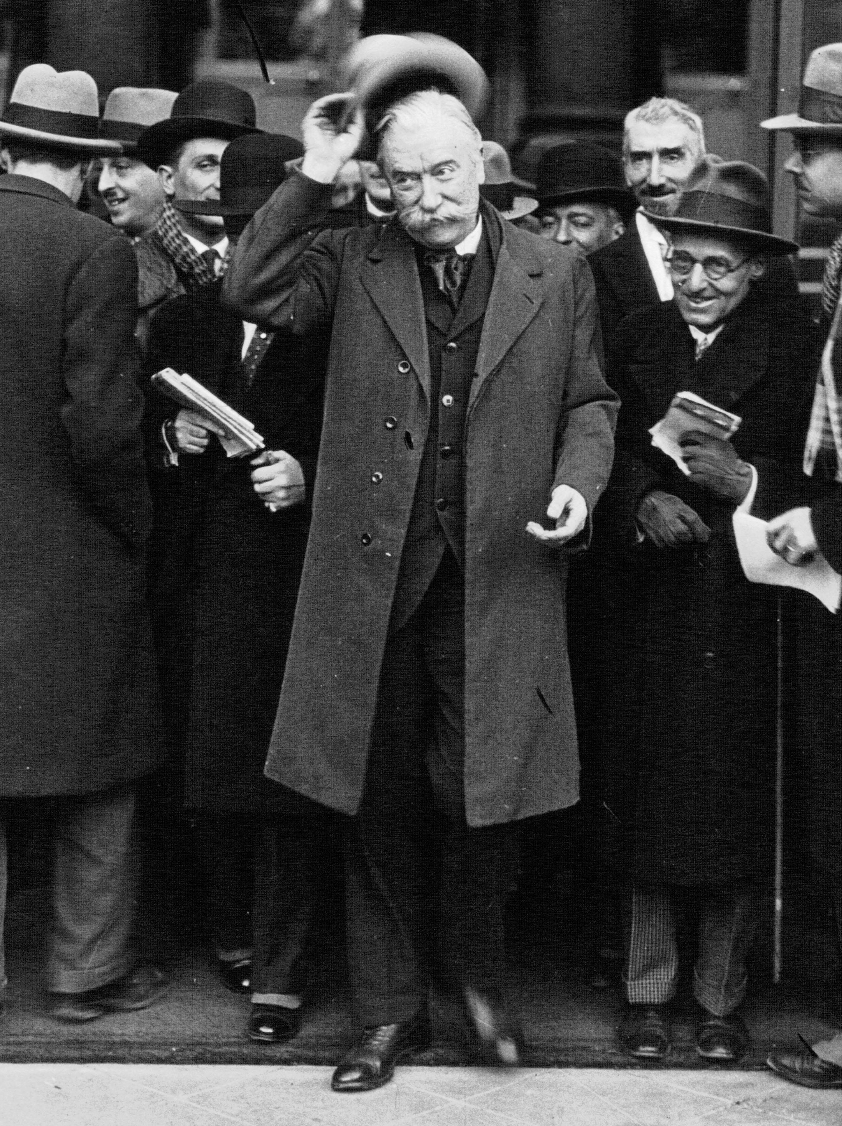 French politician Louis Marin